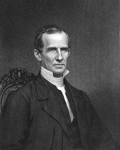 Image of Charles Clinton Beatty.